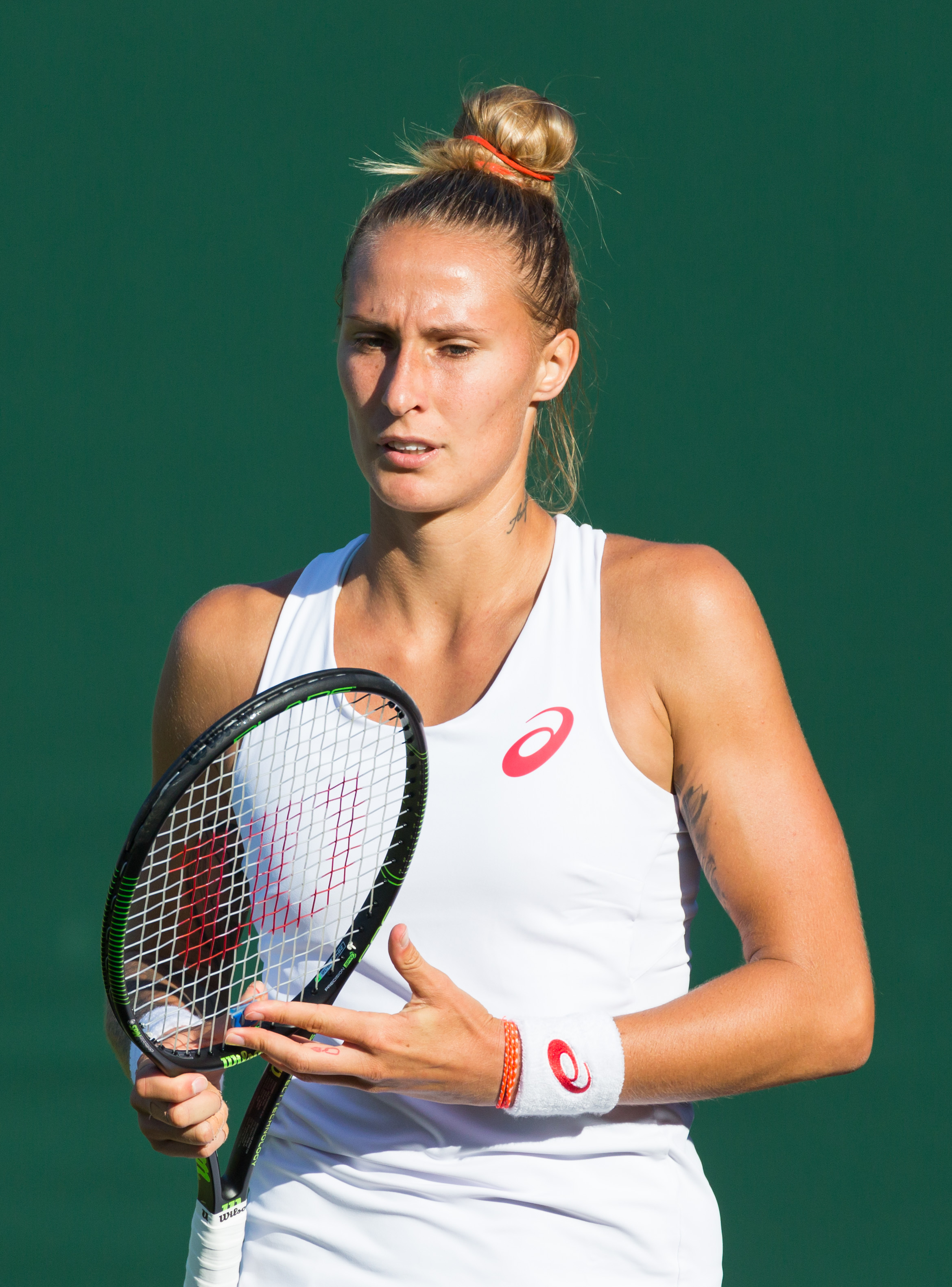 Polona Hercog competing in the first round of the 2015 Wimbledon Championships.